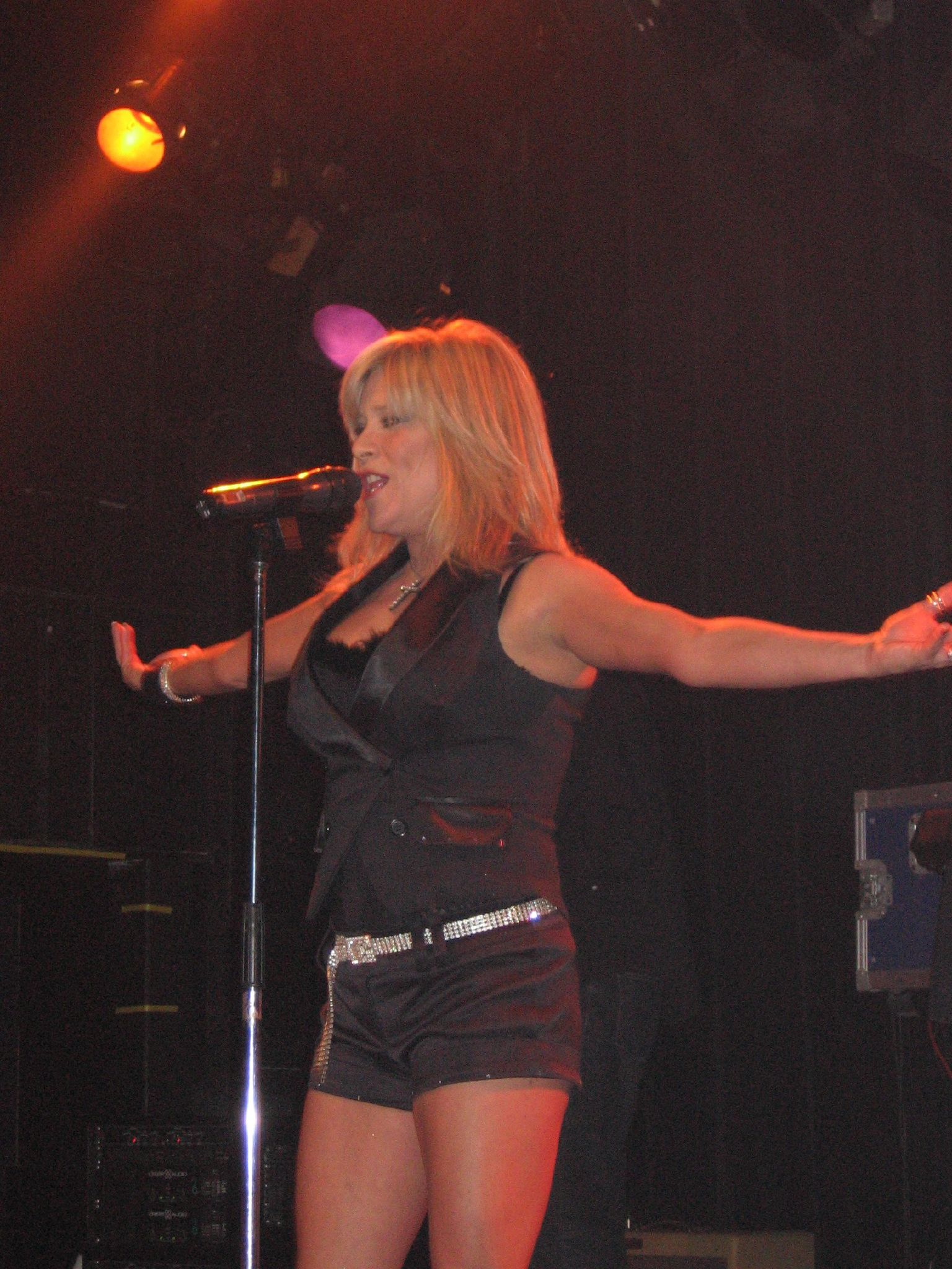 Samantha Fox performing in Vaudreuil-Dorion, Quebec